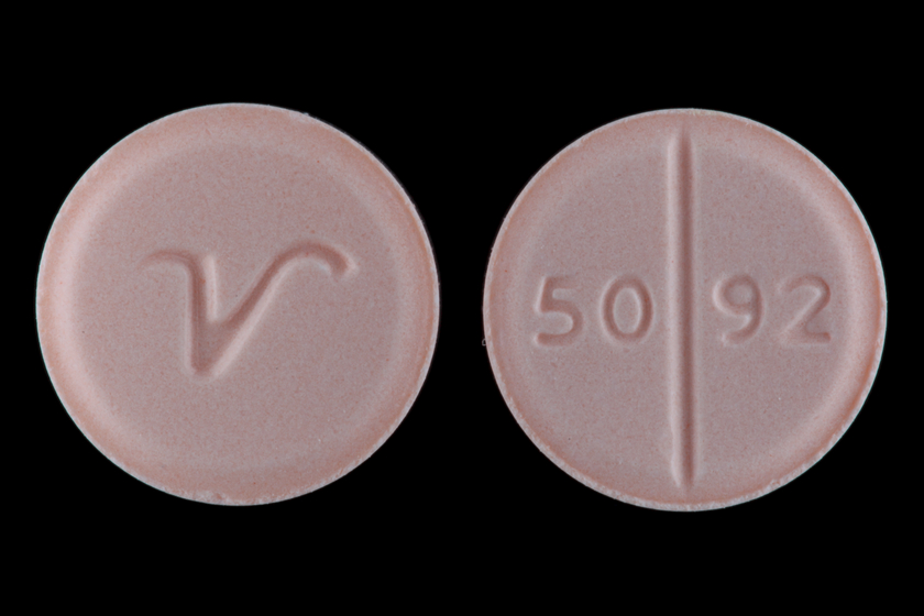 Drug Name: Prednisone 20 MG Oral Tablet Ingredient(s): Prednisone Drug Label Imprint: 5092;V Color(s): Orange Shape: Round Size (mm): 10.00 Score: 2 Inactive Ingredient(s): ShowHide fd&c yellow #6 / lactose monohydrate / magnesium s... fd&c yellow #6 / lactose monohydrate / magnesium stearate / microcrystalline cellulose / sodium starch glycolate Drug Label Author: Qualitest Pharmaceuticals DEA Schedule: Non-scheduled